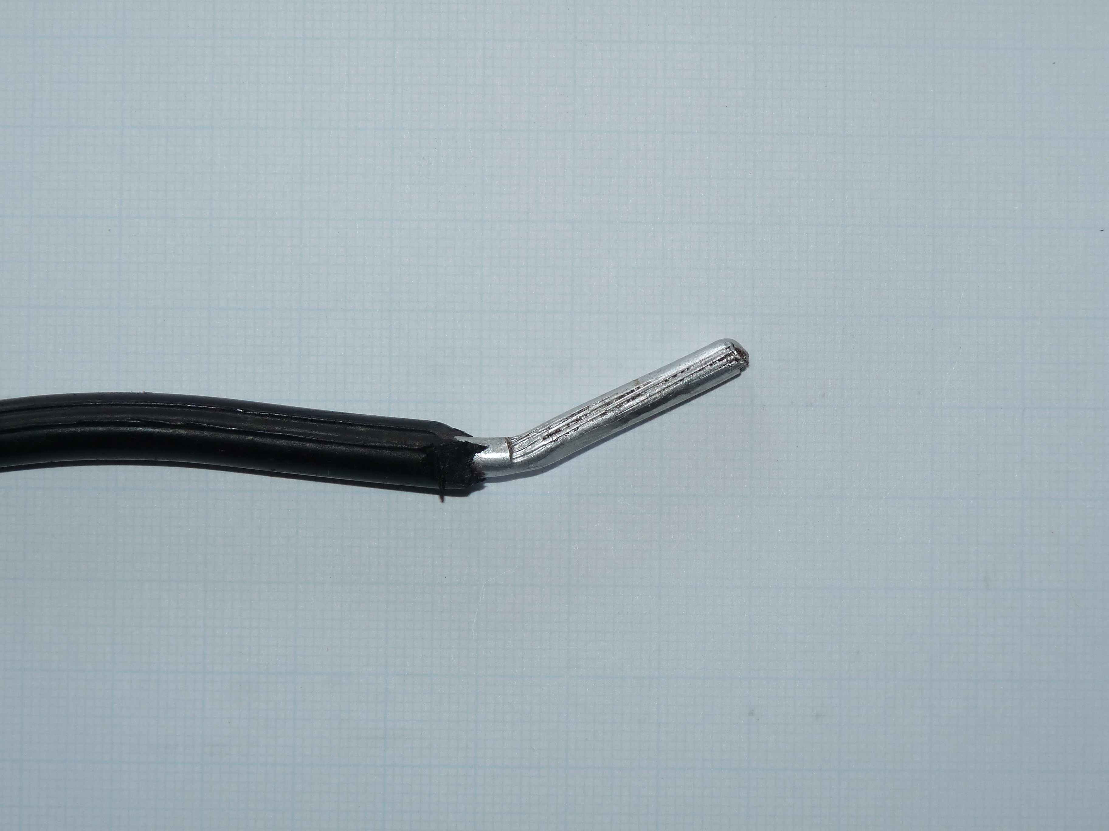 Aluminium wire, 16mm²